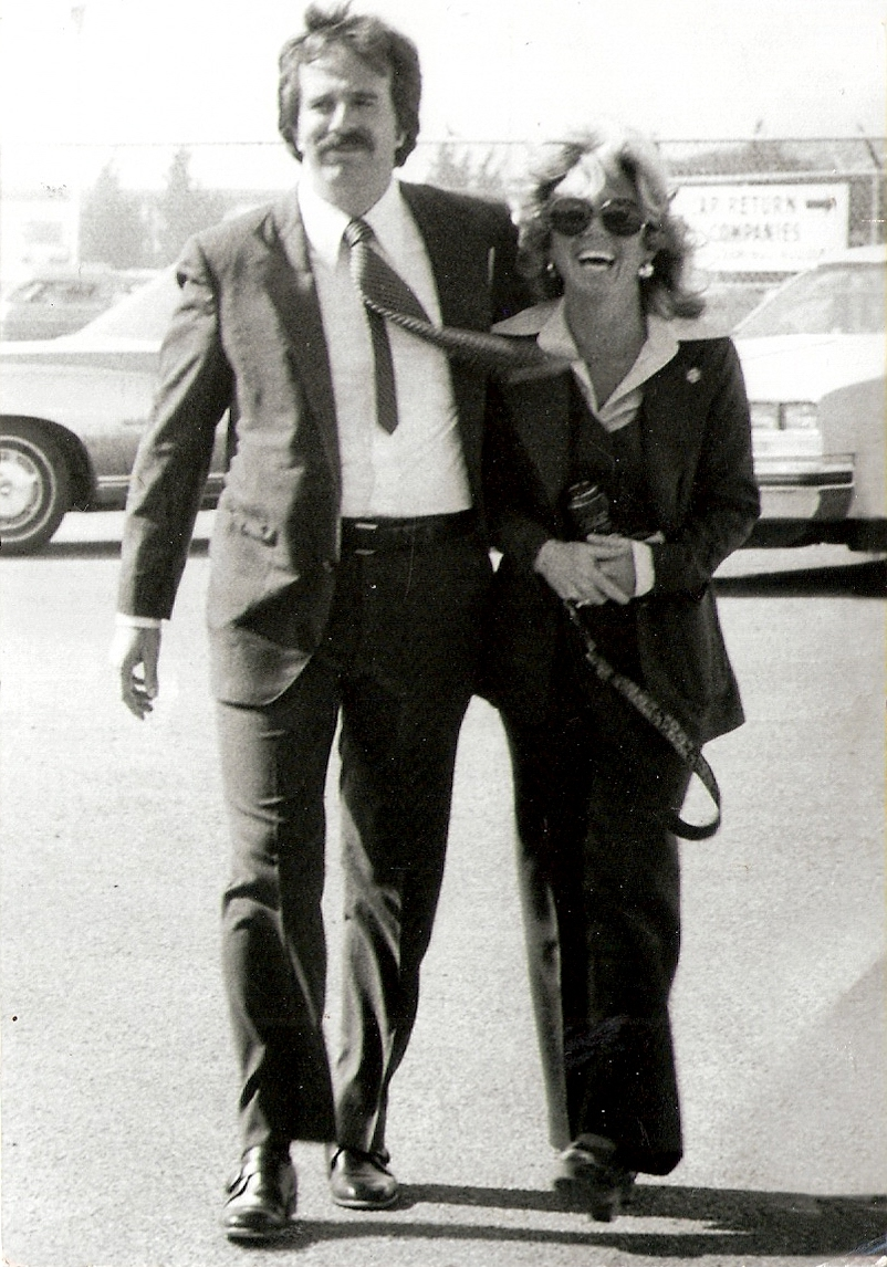 Self taken